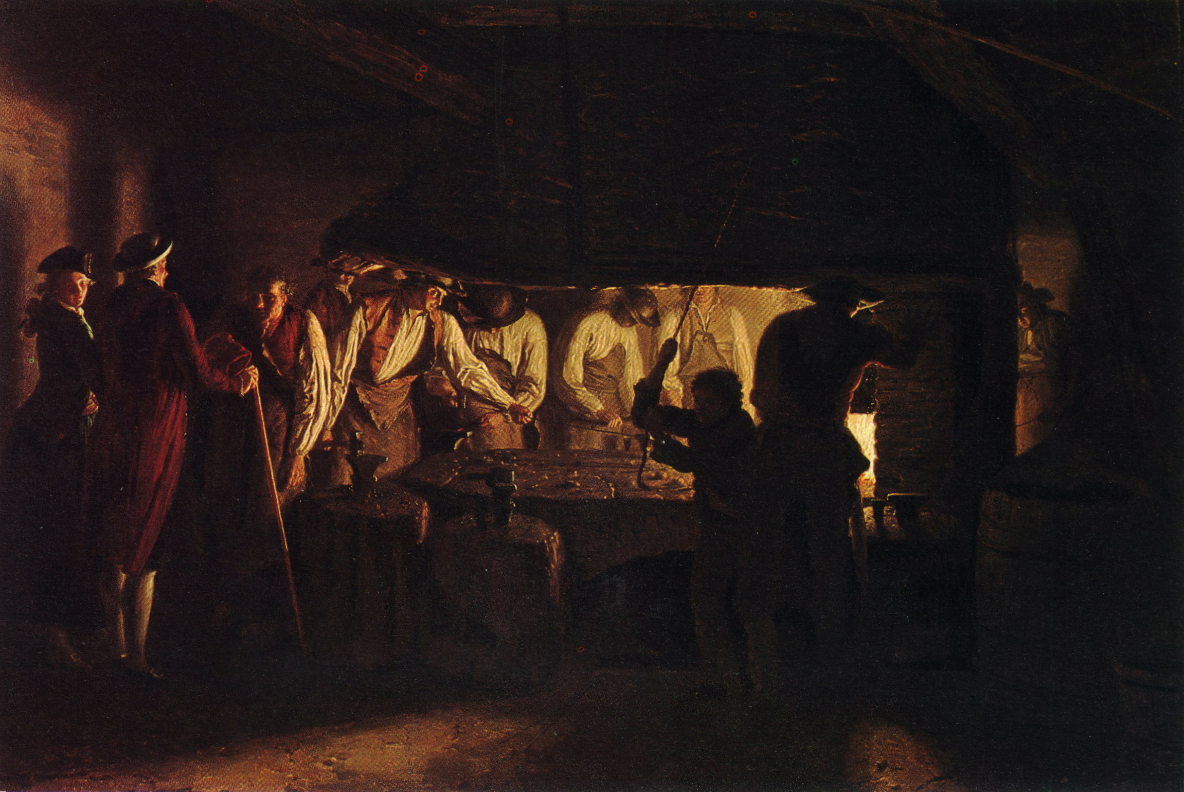 Visiting a nail factory, painted by Léonard Defrance (1735-1805).